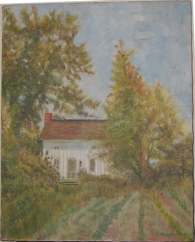 Former slave house of Maidstone Manor, Owings, Maryland. Residence of Samizu Matsuki 1990